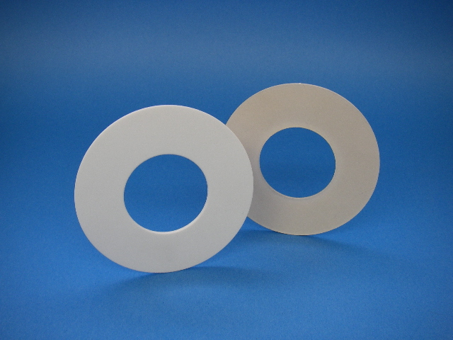 PTFEseet PTFE is Polytetrafluoroethylene, Dupont brand Teflon--Dthomsen8 (talk) 15:10, 9 July 2011 (UTC)